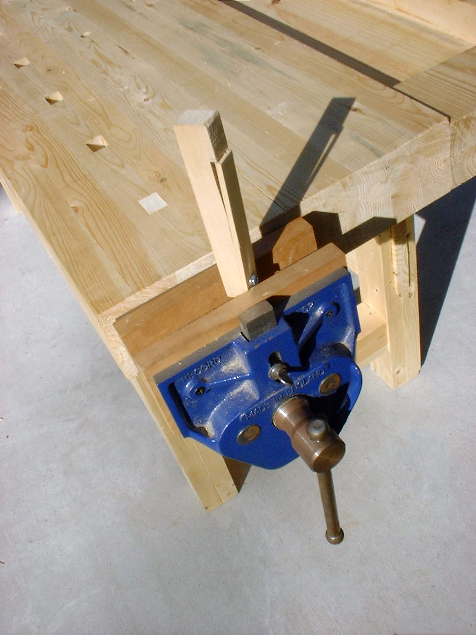 A wooden bench dog with a hickory spring clamped in a metal vise for display. Note also the steel dog that is integral to the metal vise.